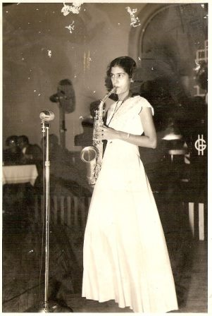 pianist